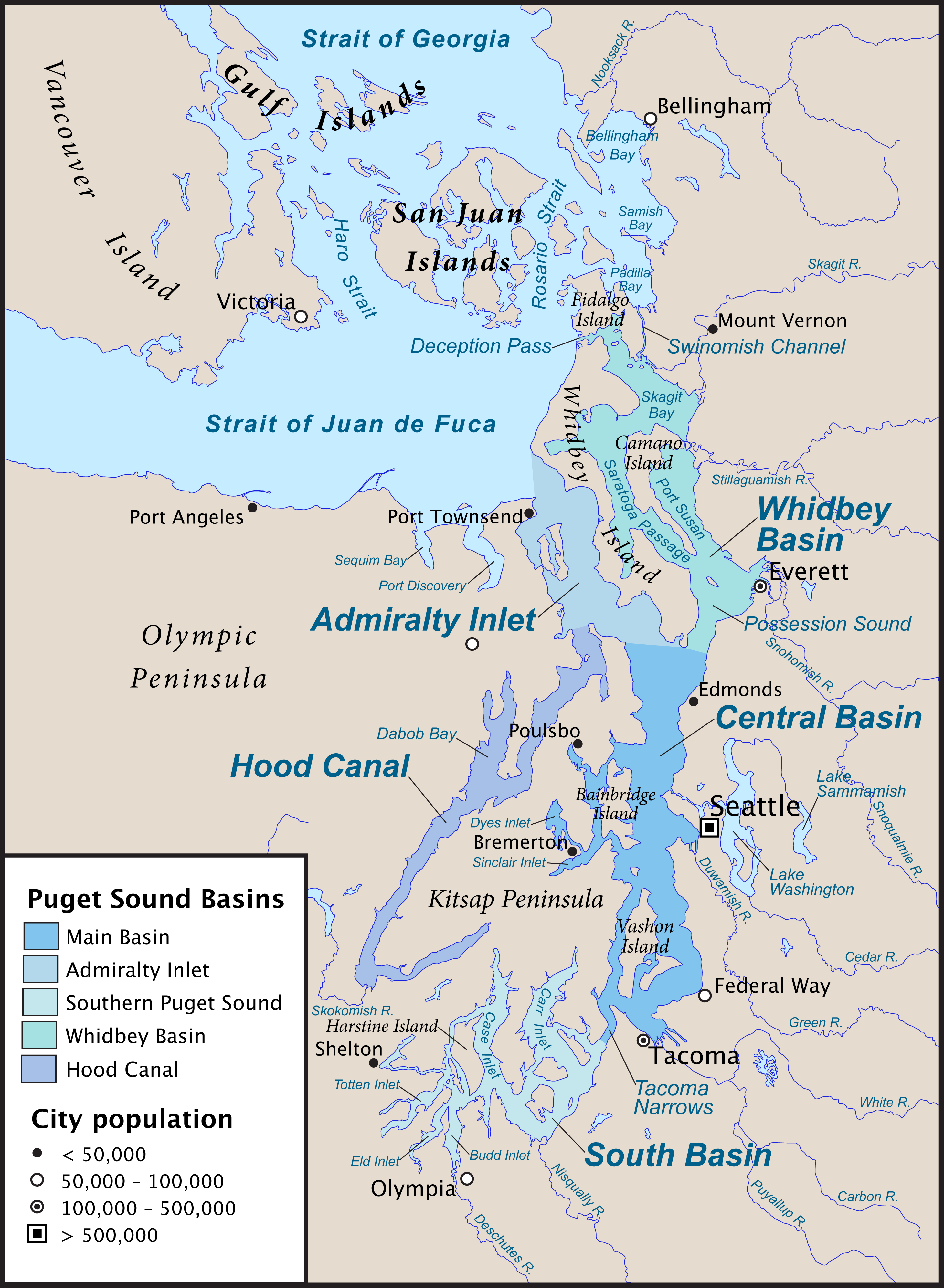 Map of Puget Sound and its main basins.